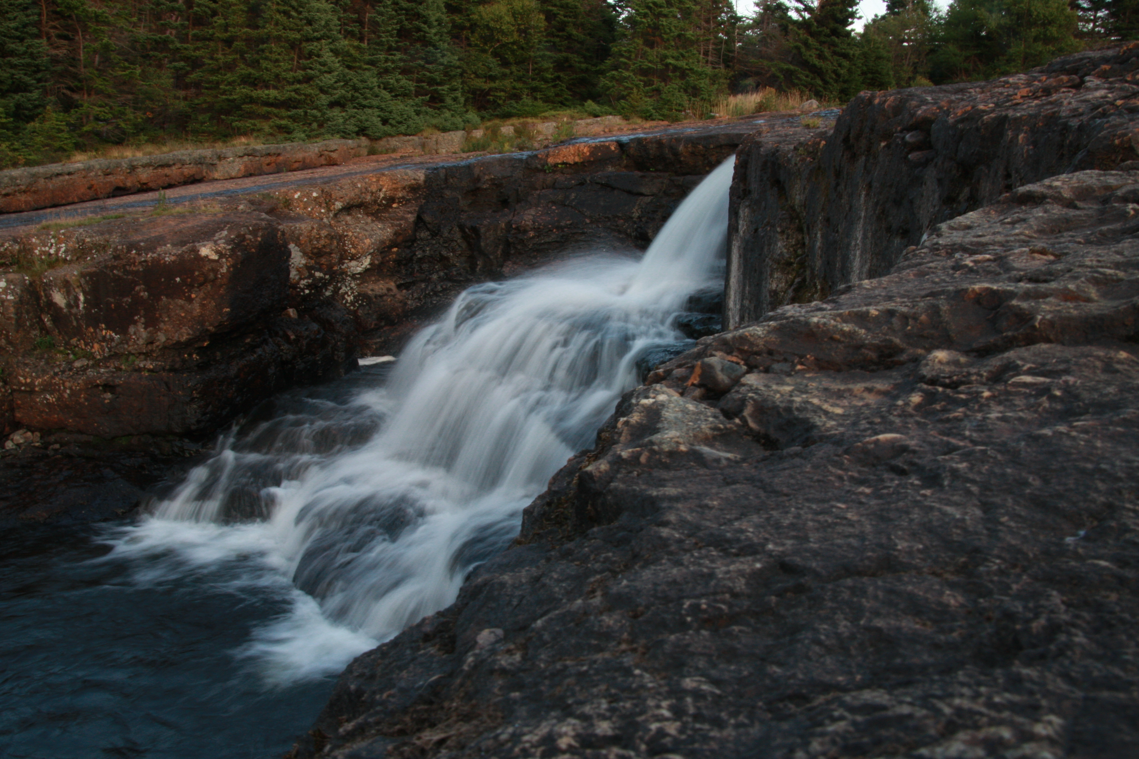 This is one of the views which can be seen from the Manuels River Trail and during the spring run-off is very impressive.